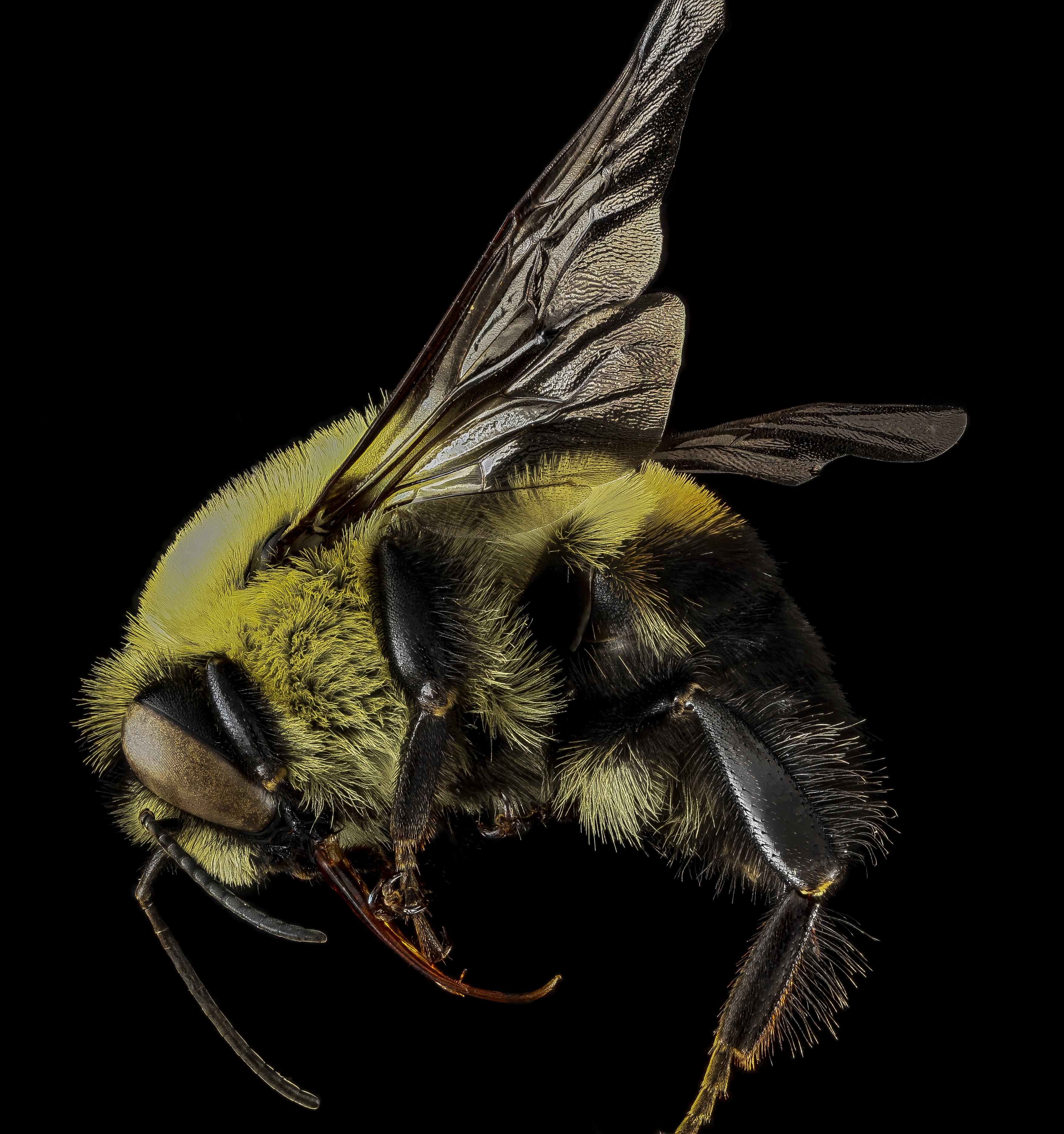 Bombus griseocollis, male. Philadelphia Bee Survey, 2012, Pennsylvania, Stephanie Wilson Collector, Morris Arboretum